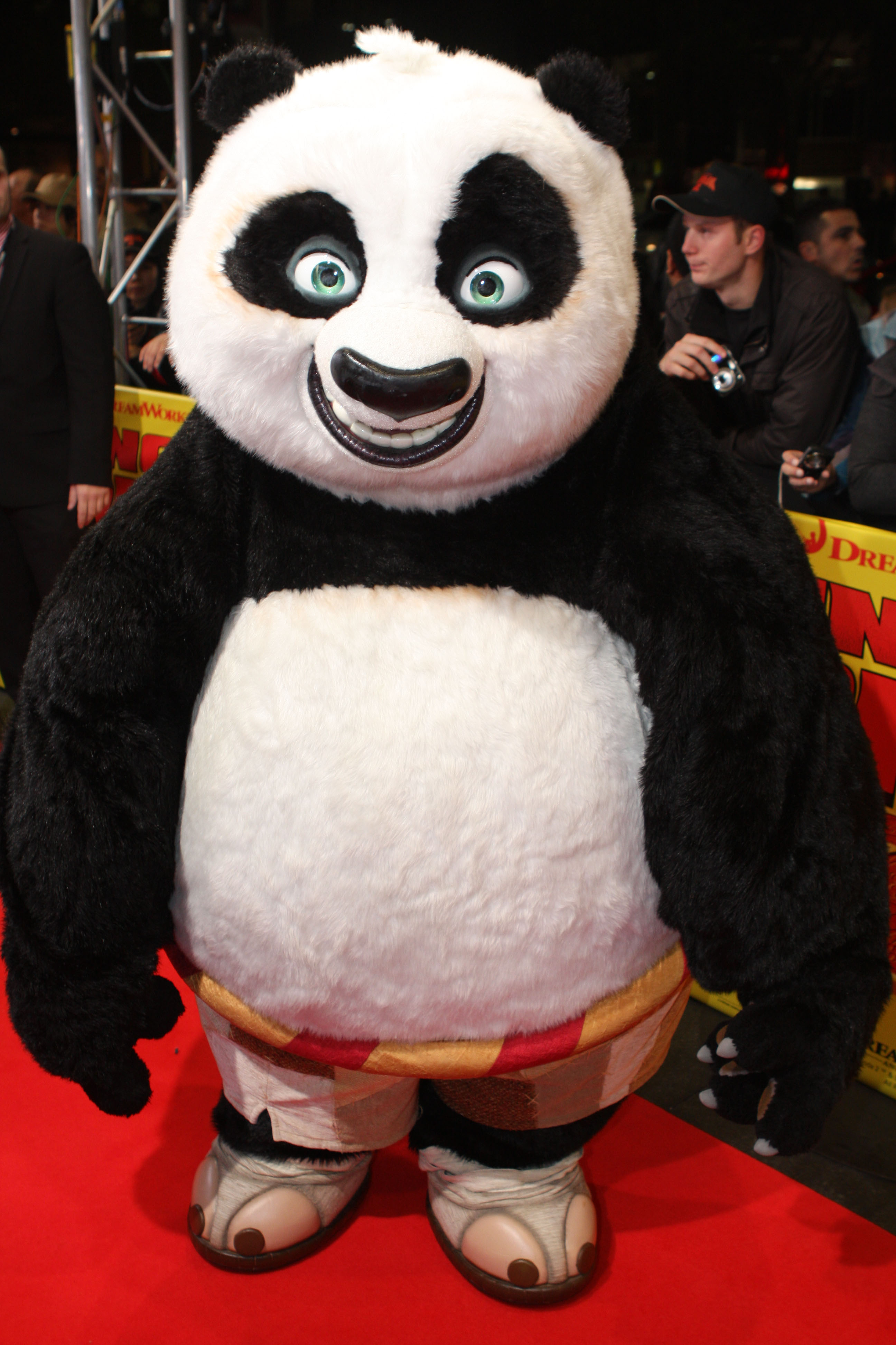 Jack Black Kung Fu Panda